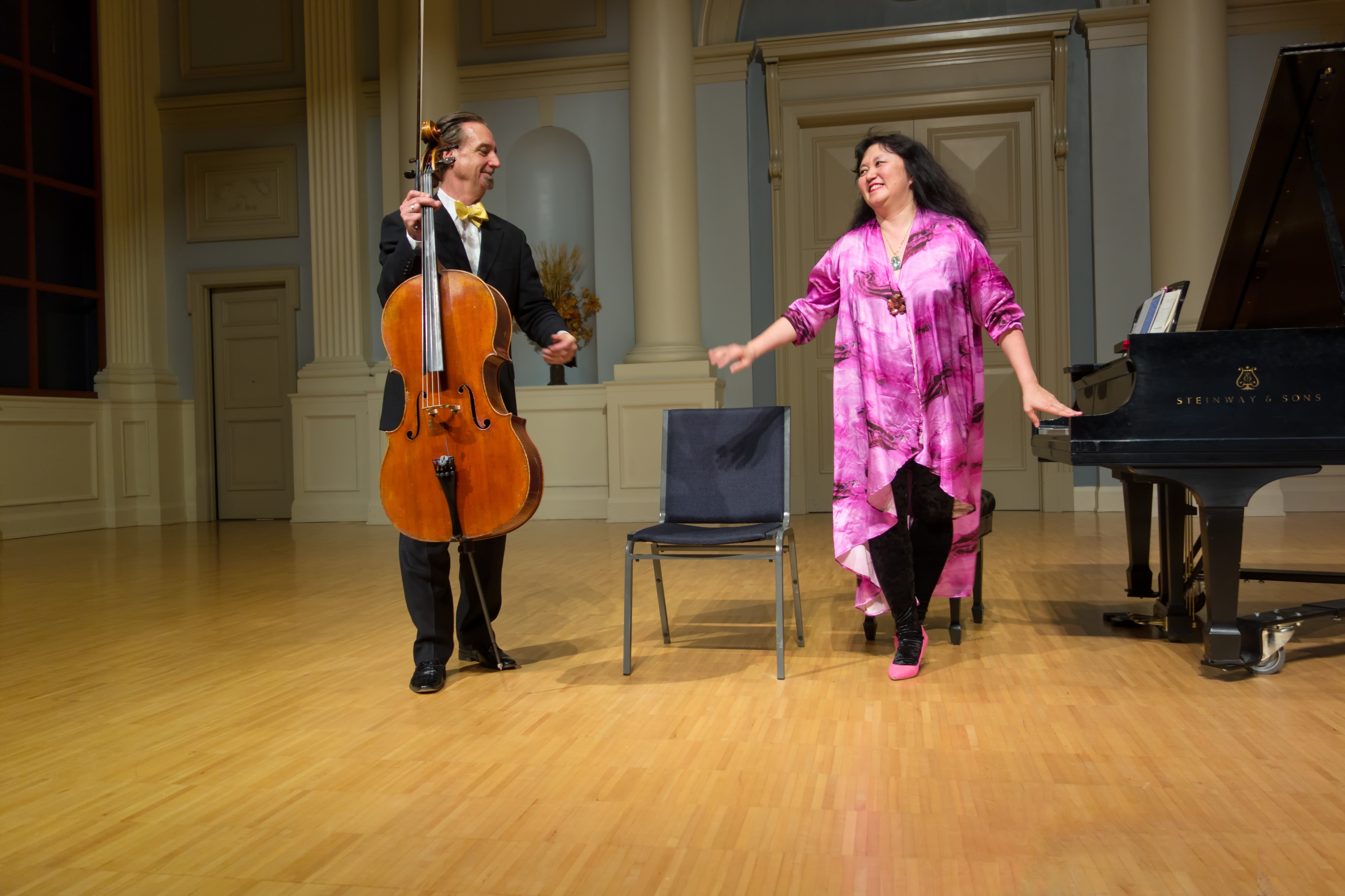 David Finckel (cello) and Wu Han (piano) performing at Brock Recital Hall, Samford University, Birmingham, Alabama in 2013.